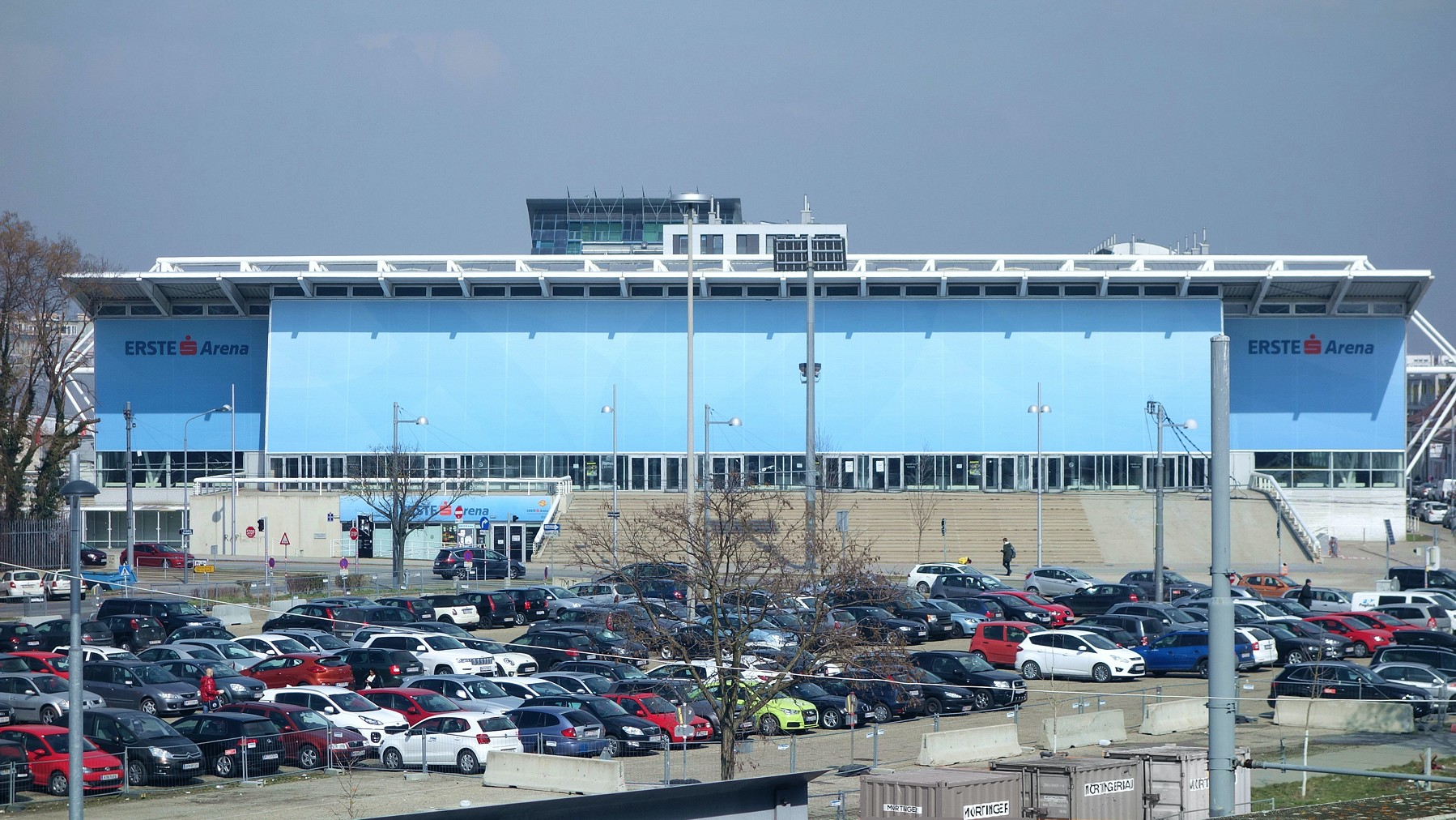 Erste Bank Arena